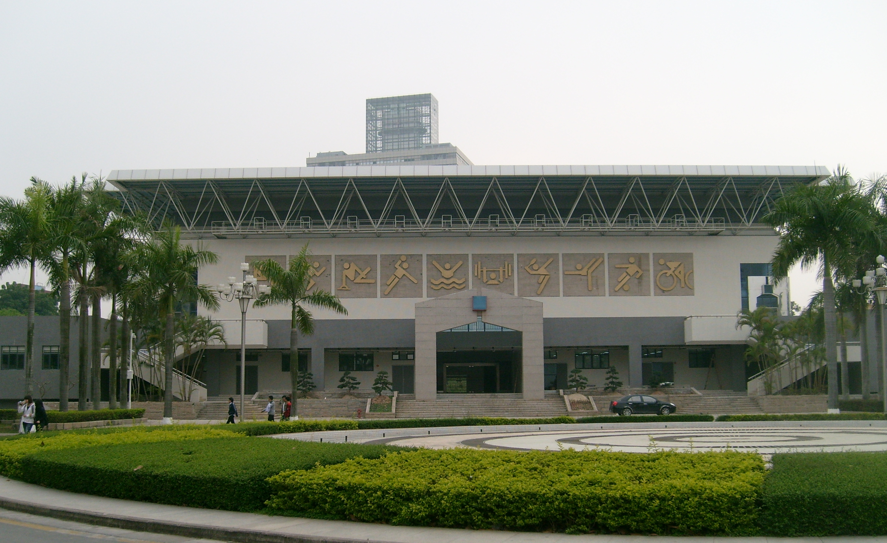 Shenzhen University: Yuanping Gymnasium 中文（中国大陆）: 深大元平體育館